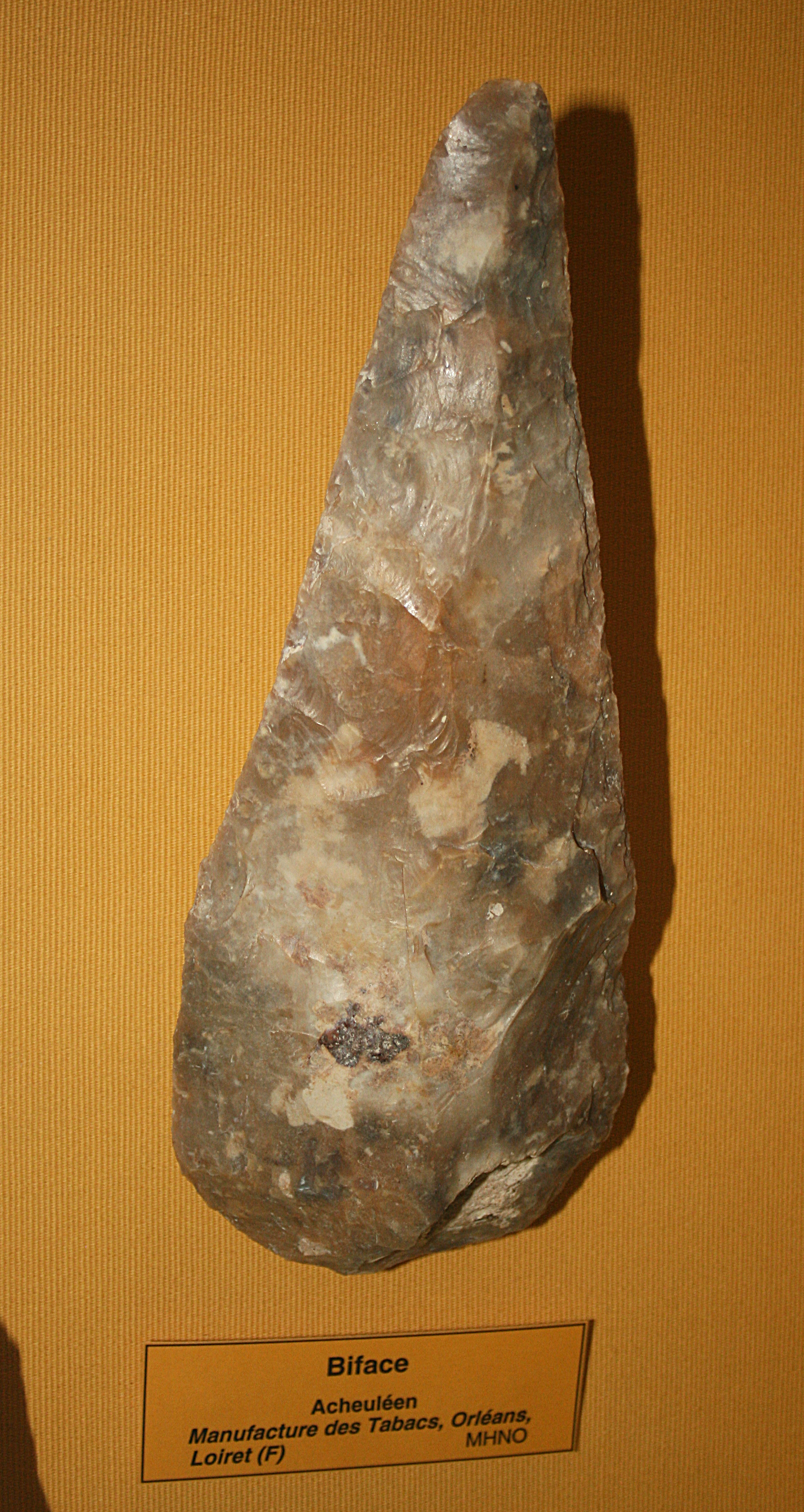 Flint Biface Stage : Lower Paleolithic (to - 500 000 years from - 300 000 years Before the Current Era) Locality : Orléans, Loiret, France